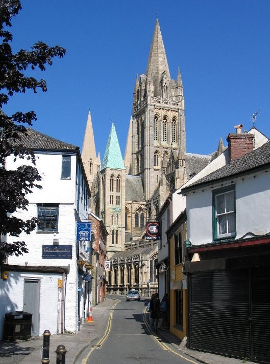 Looking up St Mary's Street towards the Cathedral, Truro, Cornwall.